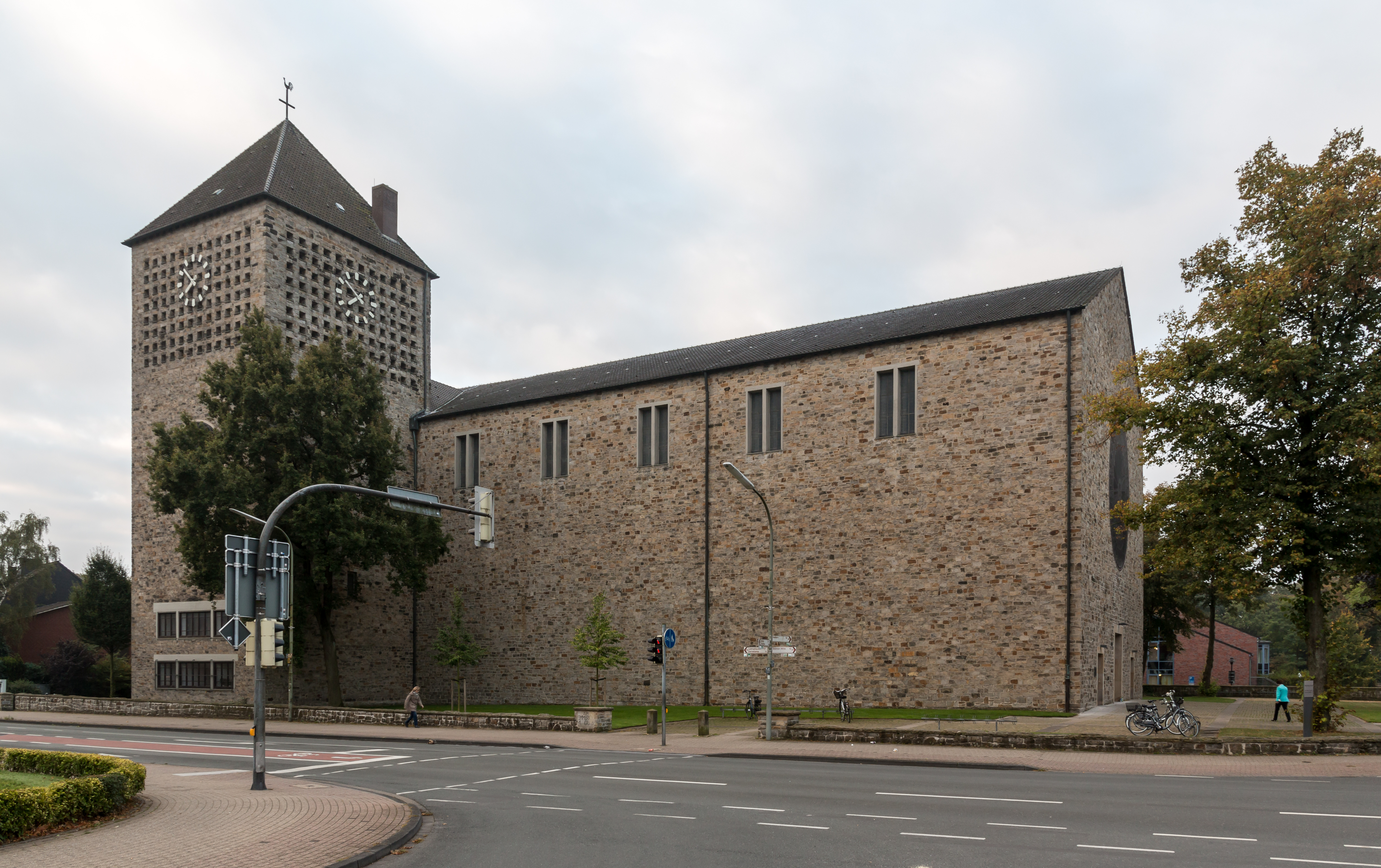 Holy Cross church, Dülmen, North Rhine-Westphalia, Germany This image shows a heritage building in Germany, located in the North Rhine-Westphalian city Dülmen (no. 16). Building TitleHeilig-Kreuz-KircheArchitectDominikus BöhmDate1938